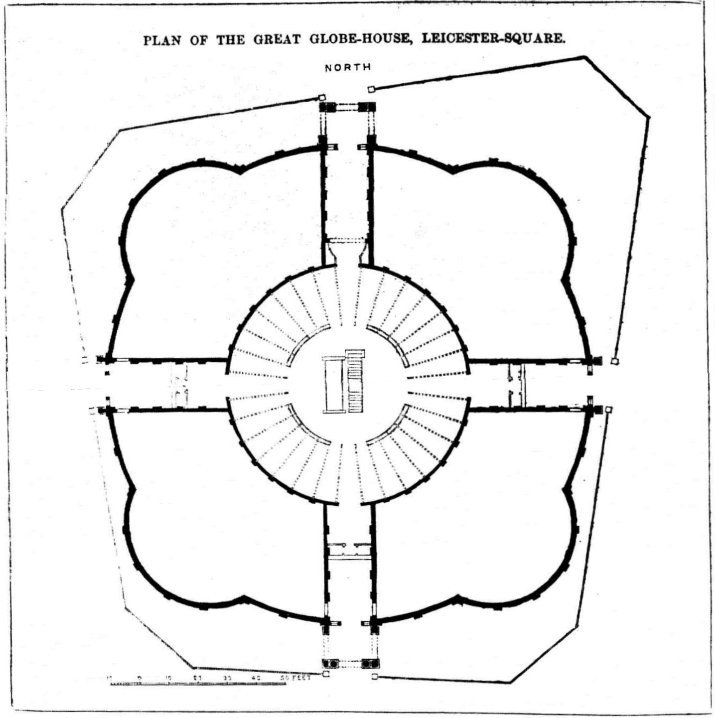 Plan of the Great Globe which stood in Leicester Square from 1851 to 1862